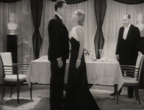 Left to right: William Powell, Jean Arthur, and Eric Blore in The Ex-Mrs. Bradford (1936) - trailer (cropped screenshot)